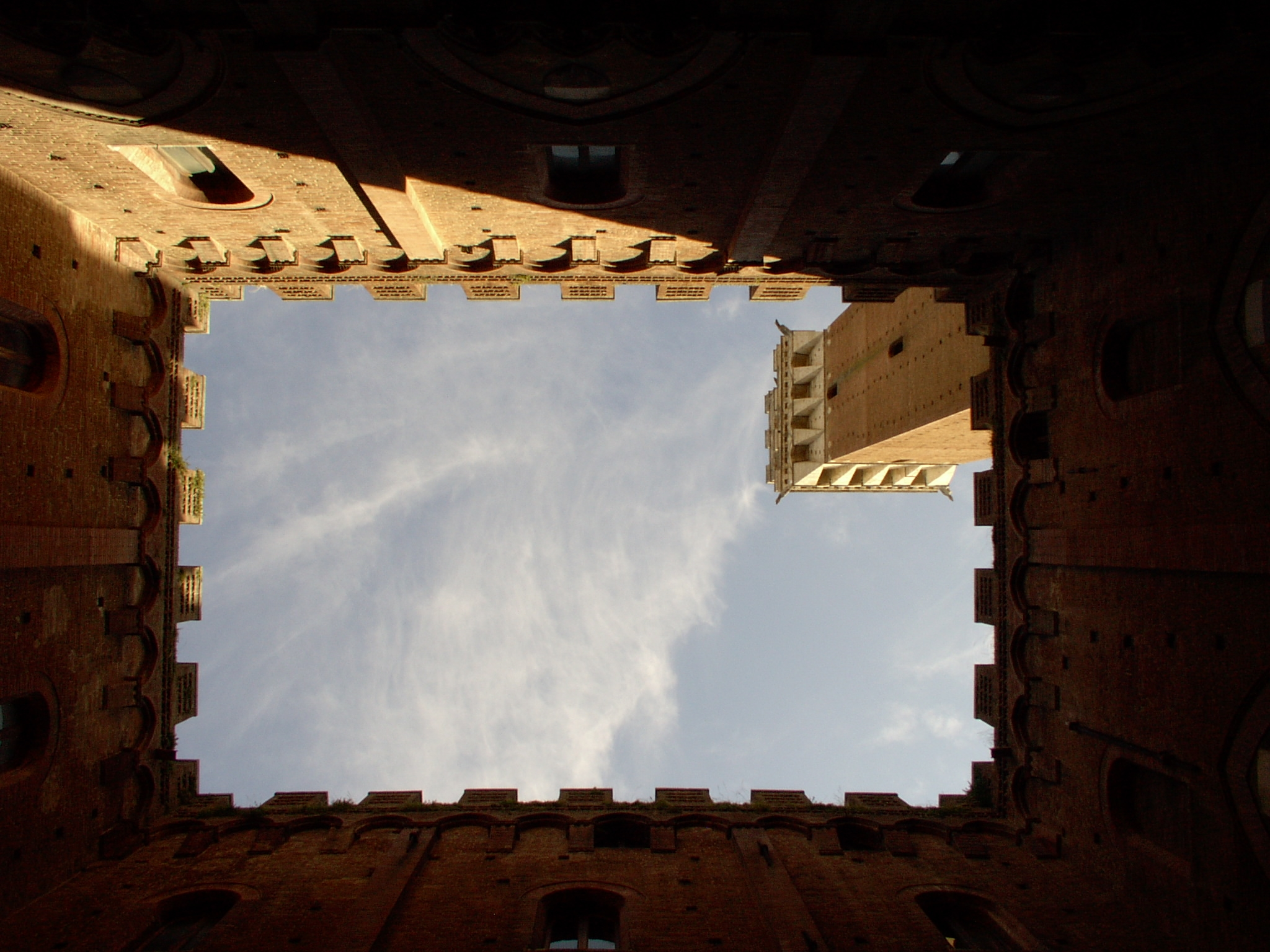 Cortile del Podestà (Siena). Source: taken by user